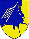 Internal coat of arms of the Bundeswehr (Armed Forces of the Federal Republic of Germany). → Remarks on naming and categorization scheme Wappen des Kdo 4. LwDiv